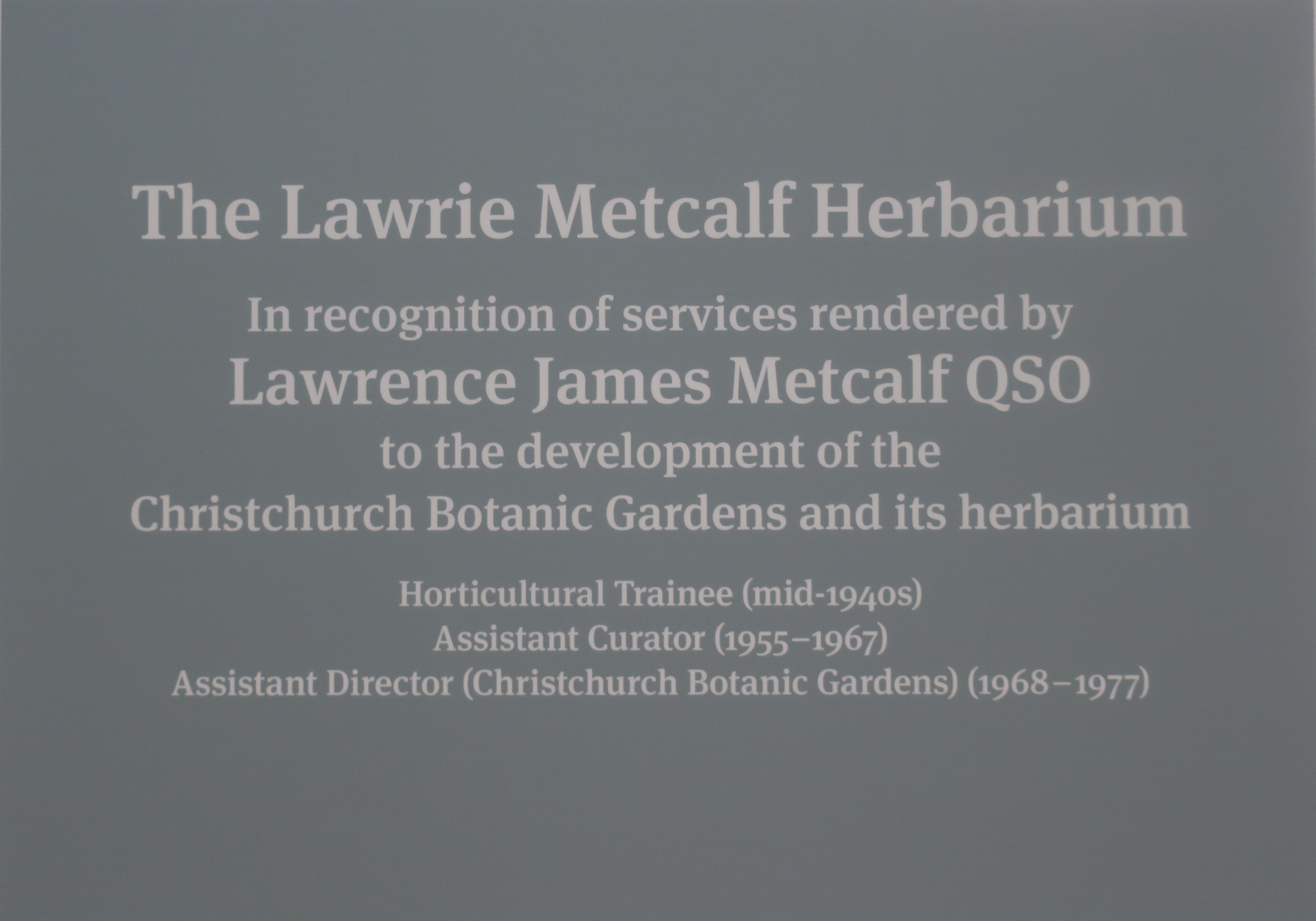 New Zealand horticulturalist, Lawrie (Lawrence Jame) Metcalf was the Assistant Curator, and Assistant Director at the Christchurch Botanic Garden for over 20 years. In 2017 it was named in his honour.